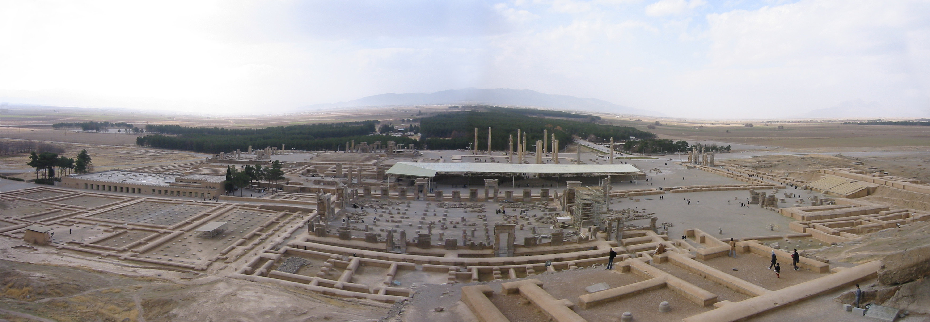 stitched from Persepolis 1.JPG and Persepolis 2.jpg